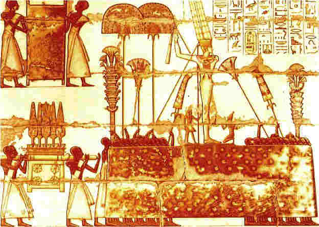 Min